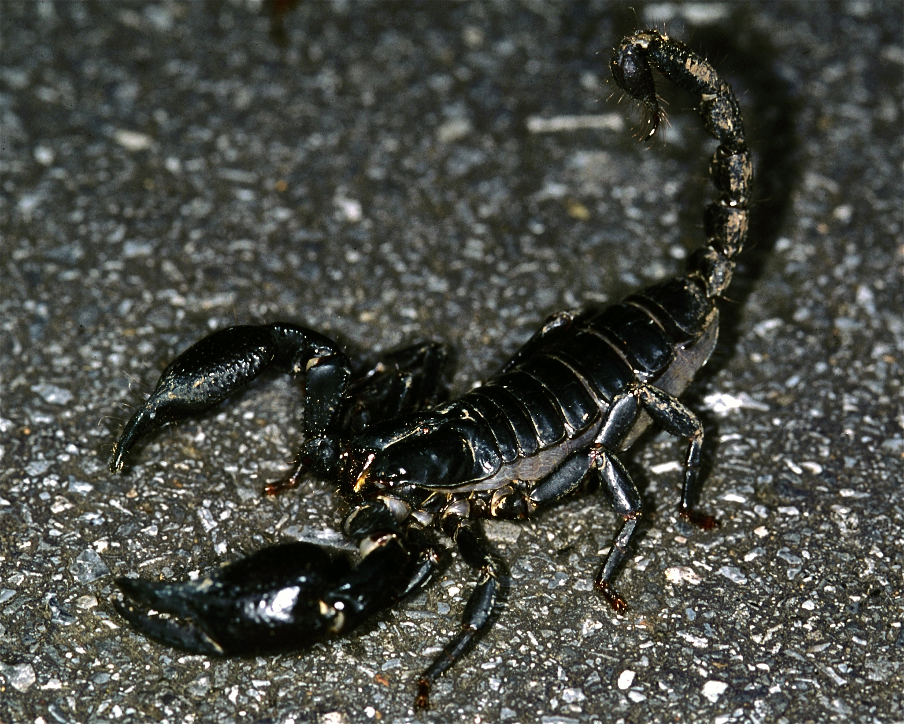 Khao Yai NP, THAILAND Scanned Slide from 2003